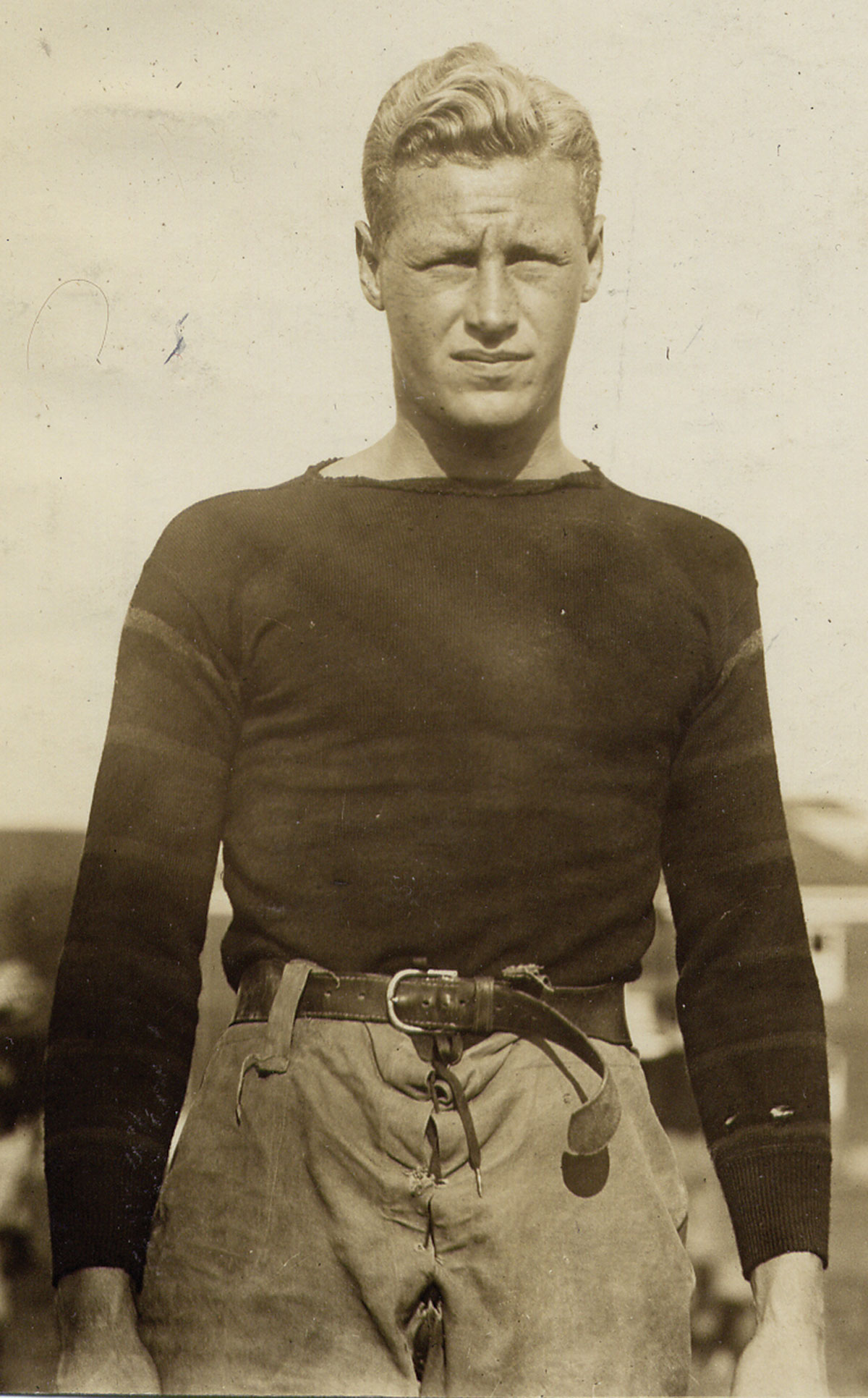 Hobey Baker while at Princeton University, dressed in their football uniform.